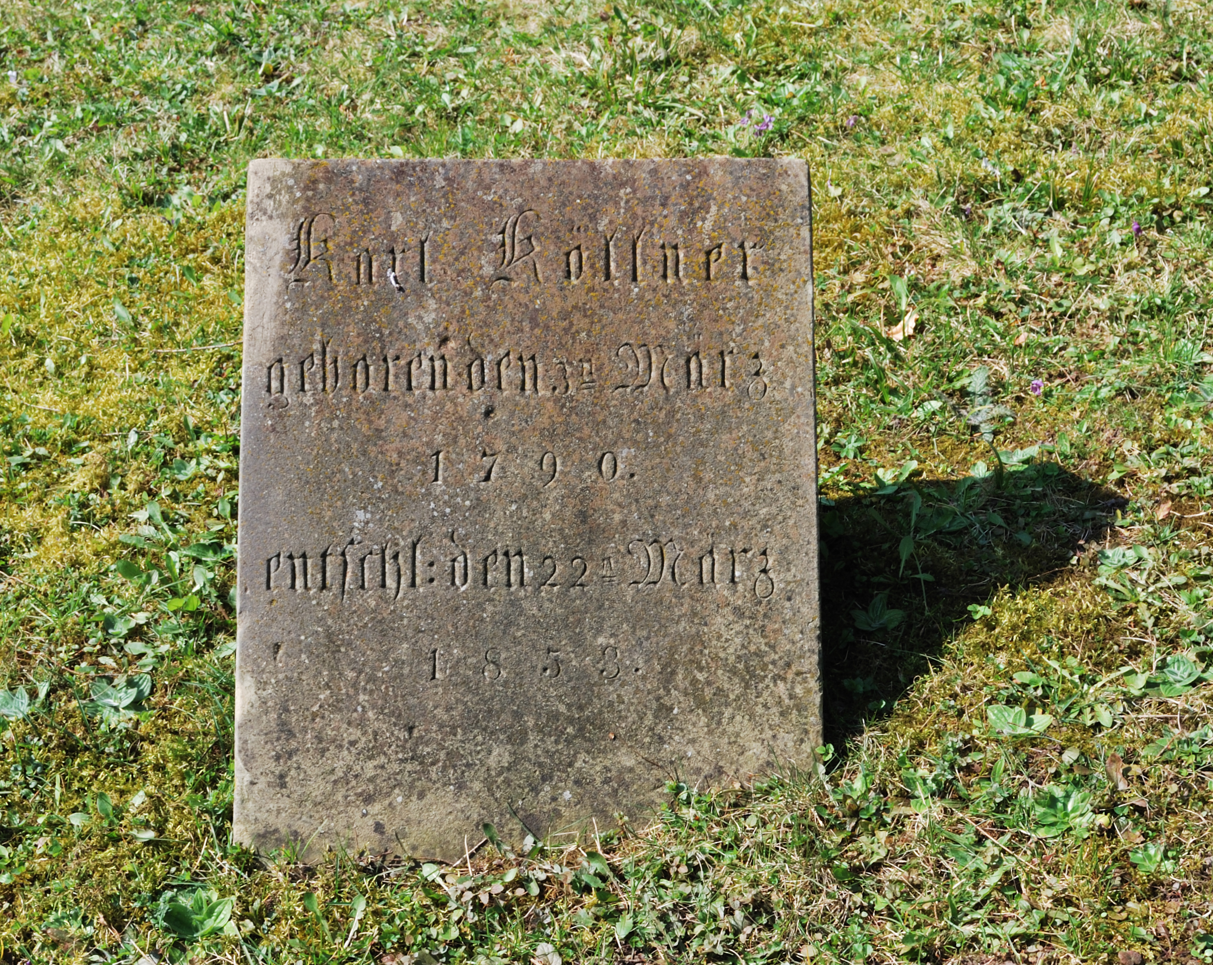 The tombstone of Karl Köllner, a German social education worker and pietist, on the Old Cemetery in Korntal in Southern Germany.